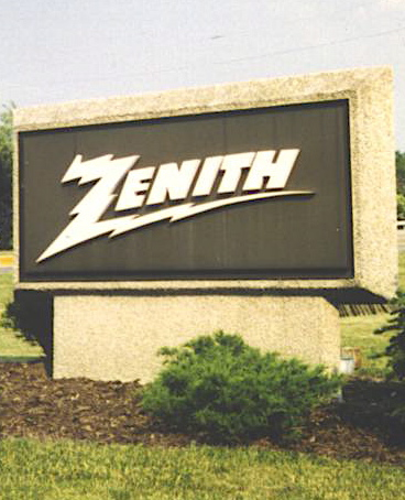 Corporate sign outside of world headquarters of Zenith Electronics Corporation, Glenview, IL, USA. Photo by Karin R. Schumann